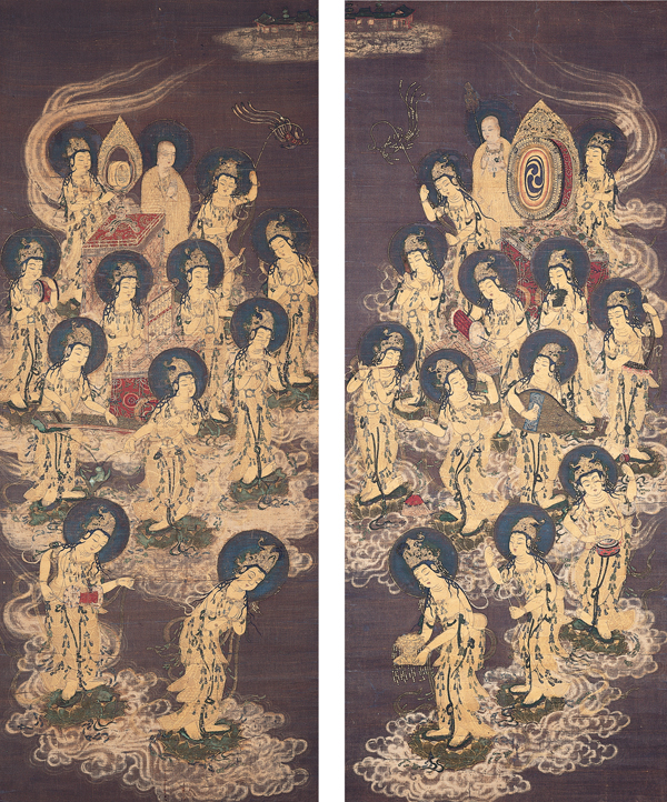 Twenty-Five Bodhisattvas Descending from Heaven, c. 1300, Japan, Kamakura period, Pair of hanging scrolls; gold and mineral pigments on silk, Kimbell Art Museum